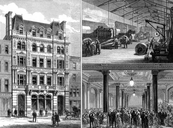 The Daily Telegraph's new offices and printing premises in Fleet Street, London. The Illustrated London News, 1882.